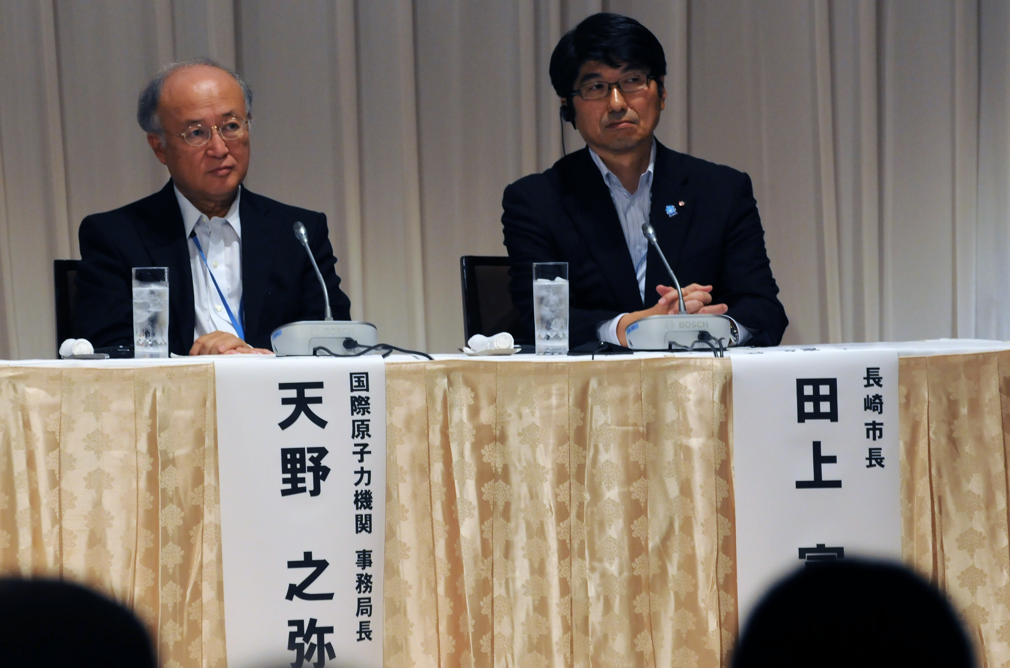 Yukiya Amano, Director General of the International Atomic Energy Agency, and Tomihisa Taue, Mayor of Nagasaki City, attended the United Nations Conference on Disarmament Issues at the Hotel Buena Vista in Matsumoto City, Nagano Prefecture on July 27, 2011.